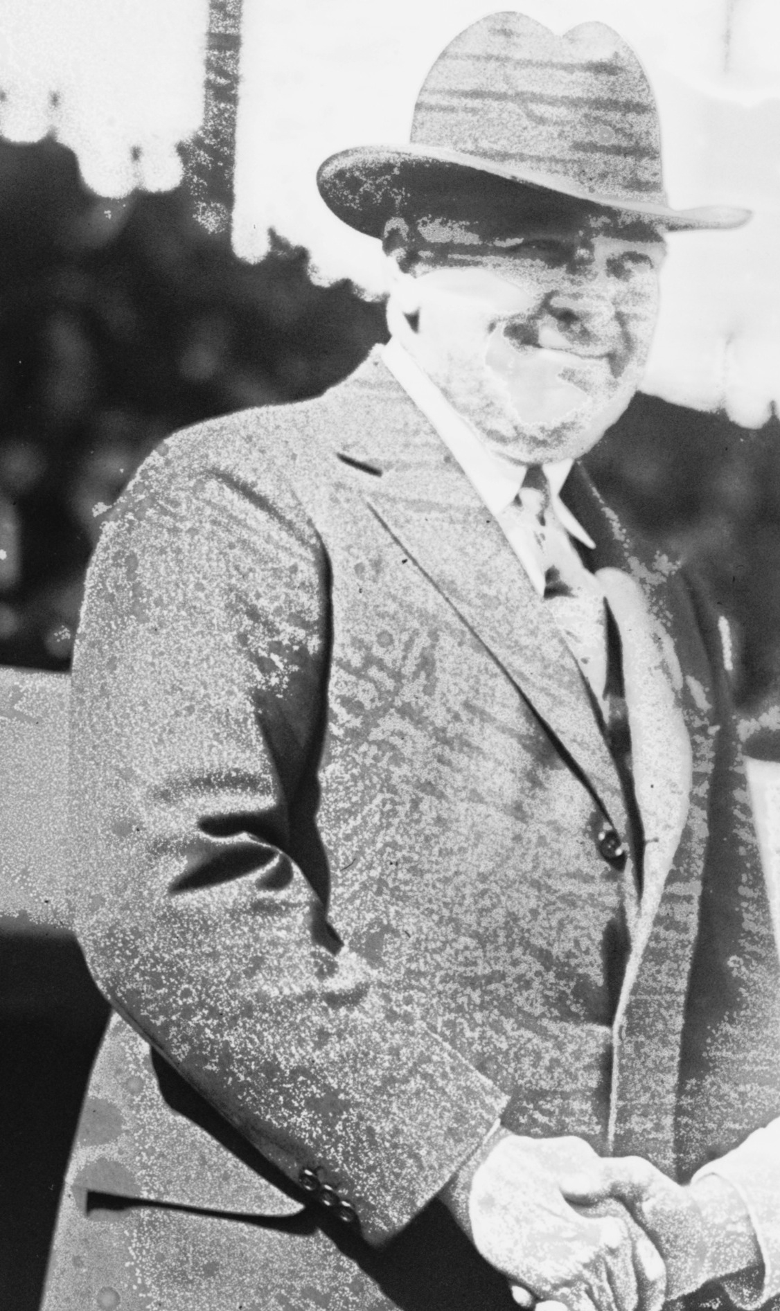 New York Yankees executive Ed Barrow, between 1909 and 1923. → This file has been extracted from another image: File:Ed Barrow circa 1916.jpg.